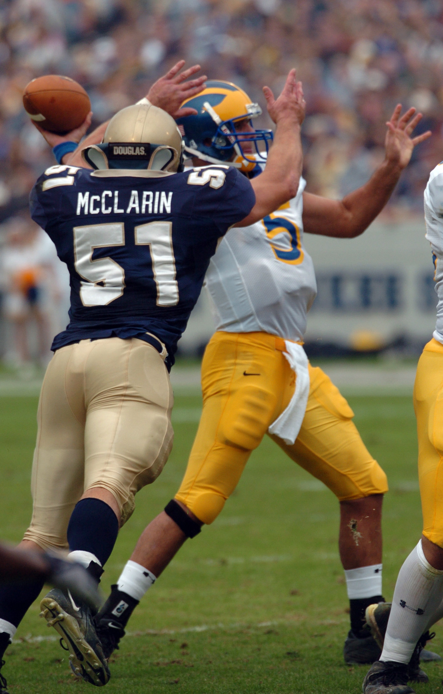 U.S. Naval Academy Midshipman 1st Class Bobby McClarin tries to block a pass by Delaware Blue Hen's Quarterback Sonny Riccio during the 1st quarter of play.